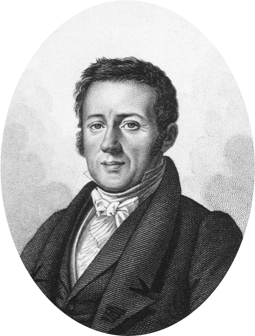 René Primevère Lesson (20 March 1794 - 28 April 1849)